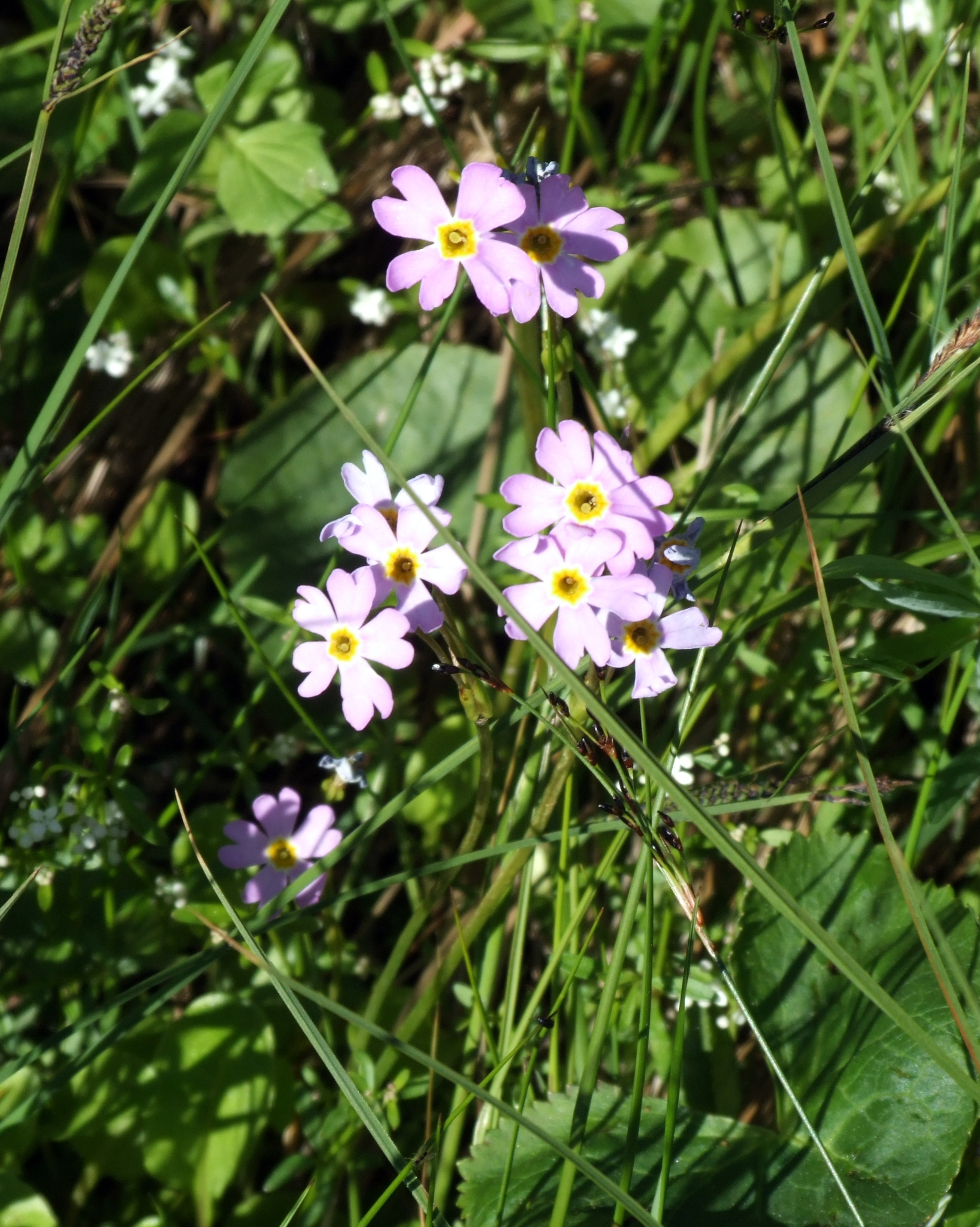 Primula nutans on the coast of Bothnian Bay between the cities of Kemi and Oulu in Finland.